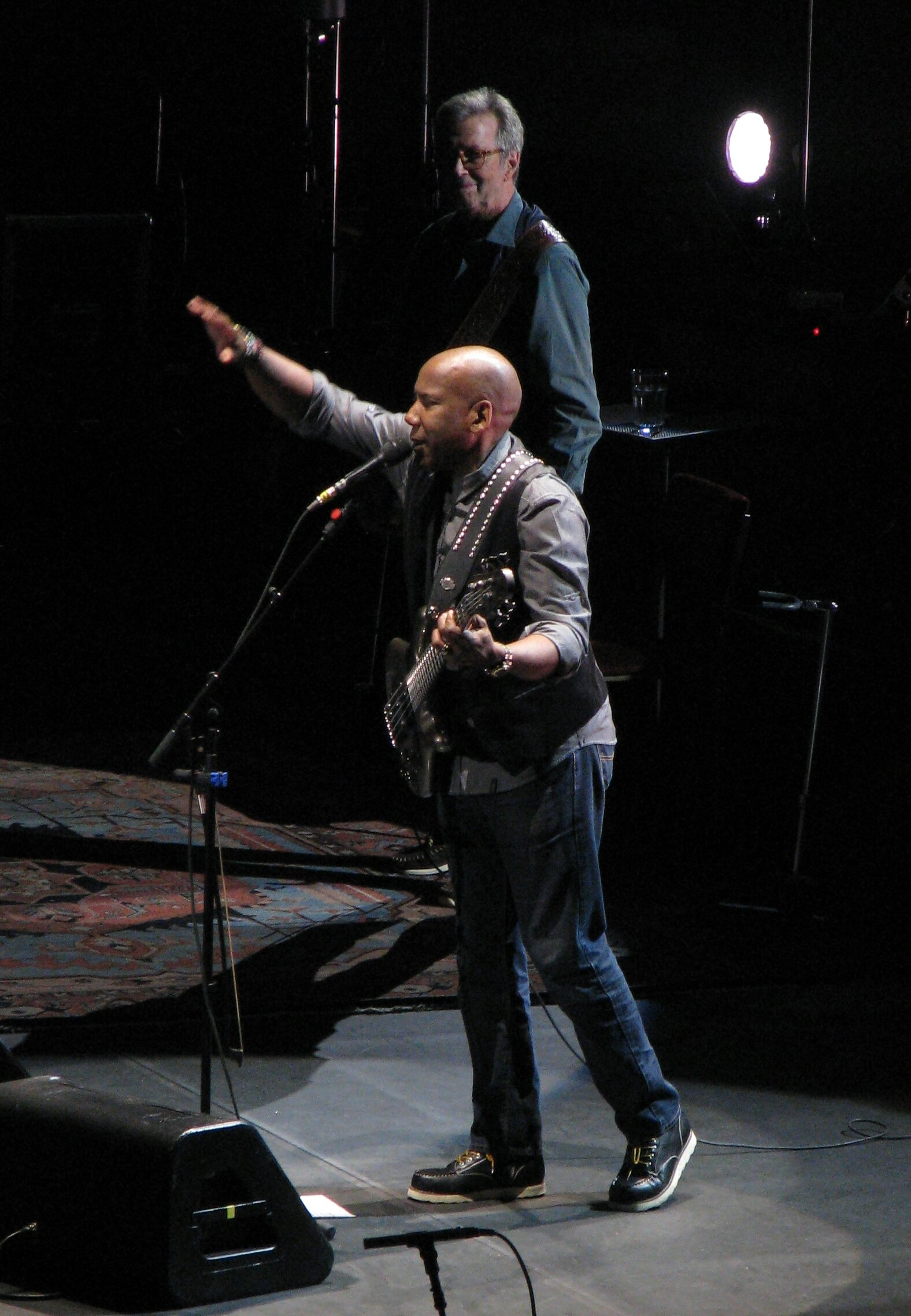 Nathan East performed "Can't Find My Way Home" with Eric Clapton at Madison Square Garden on May 3, 2015